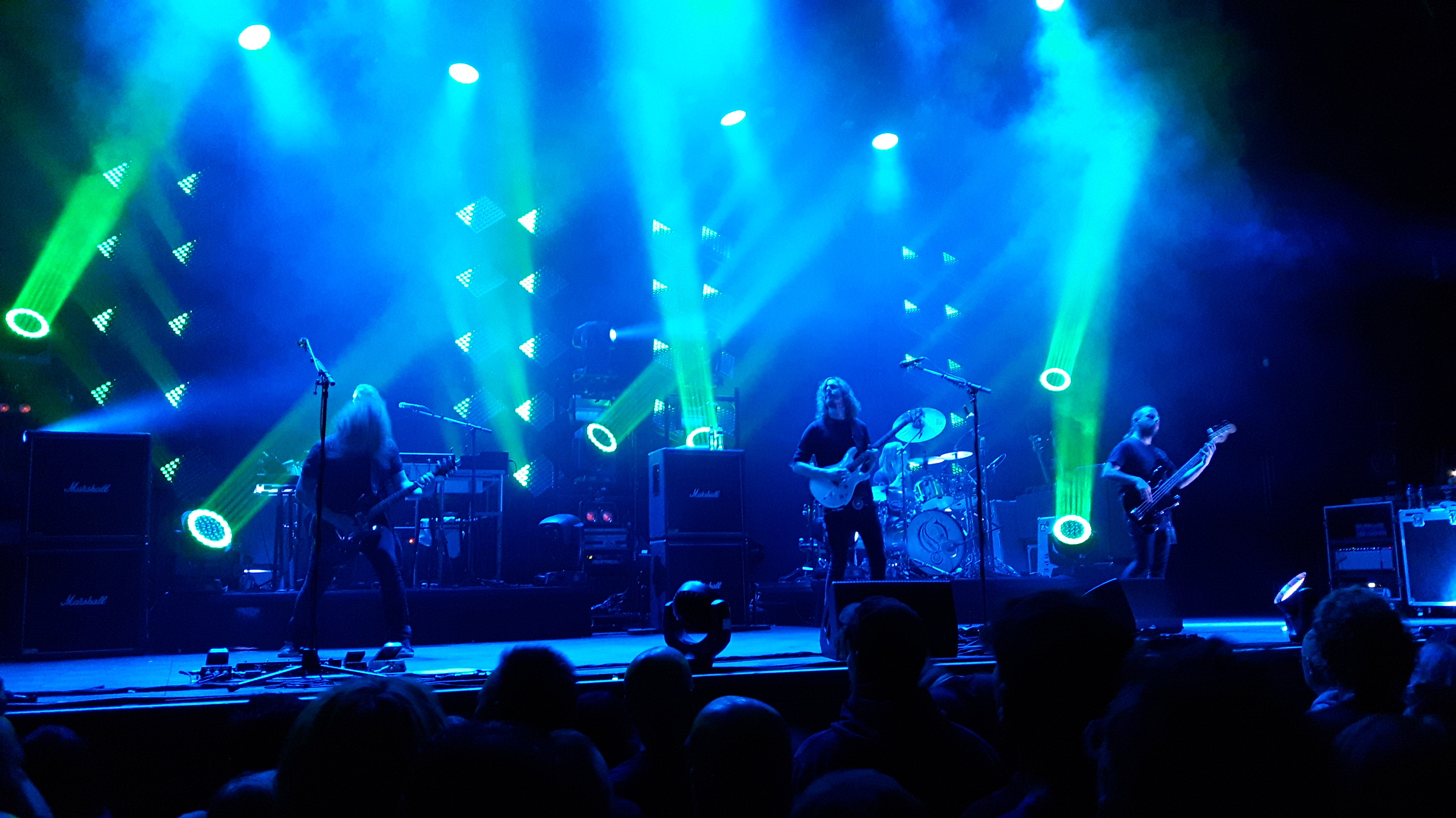 Opeth playing in 013 Tilburg, 18 November 2016